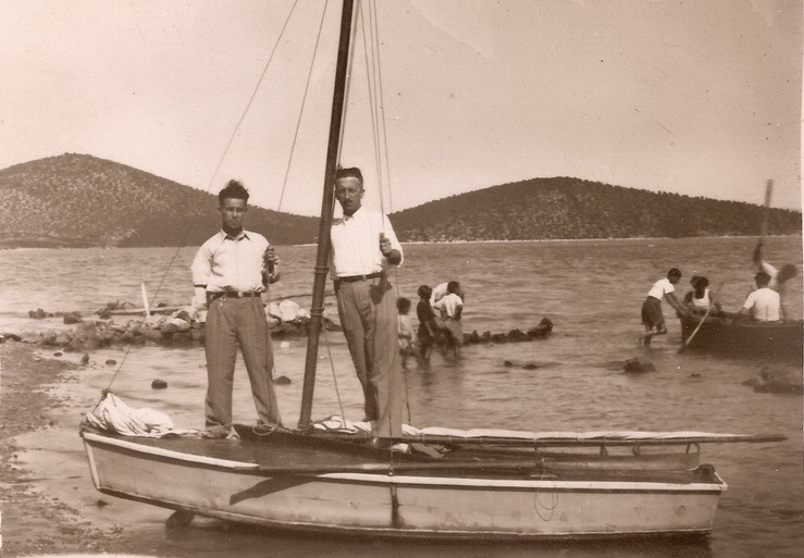 The old port of Skala Fthiotis in 1945.